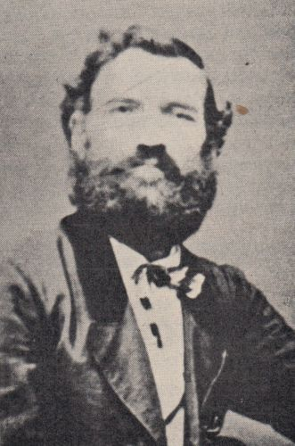 Franz Hruschka before 1888 Photographs of Franz Hruschka (1819-1888) taken prior to 1888